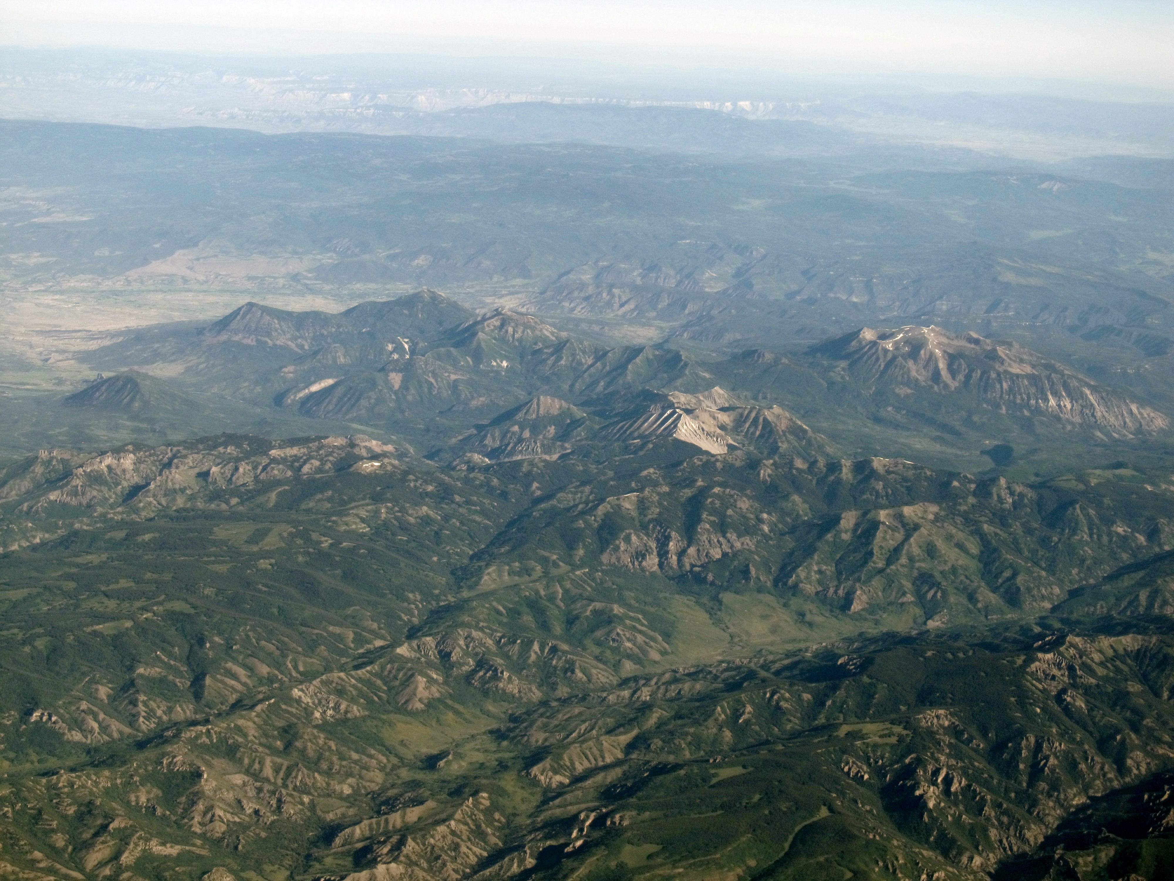 The West Elk Mountains are a high mountain range in the west-central part of the US state of Colorado. They lie primarily within the Gunnison National Forest, and part of the range is protected as the West Elk Wilderness. The range is primarily located in Gunnison County, with small parts in eastern Delta and Montrose counties. The West Elks are surrounded by tributaries of the Gunnison River. The range is bounded on the north by the North Fork of the Gunnison and on the east by the East River, another tributary of the Gunnison. On the south and west it is contiguous with Black Mesa and Fruitland Mesa, both part of the uplift in which sits the Black Canyon of the Gunnison. On the northeast it is contiguous with the Elk Mountains, being separated from them by Anthracite Creek and Coal Creek. Nearby towns include Gunnison, Paonia, and the ski resort of Crested Butte.